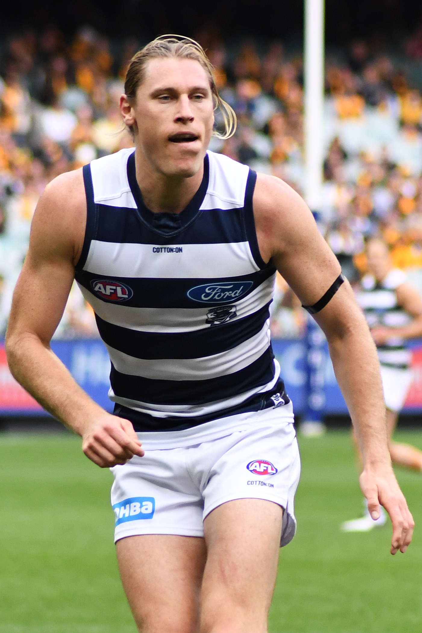 Mark Blicavs of Geelong during the 2019 AFL round 5 match between Hawthorn and Geelong at the Melbourne Cricket Ground on Monday, 22 April 2019 in Melbourne, Victoria.